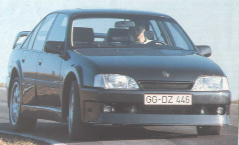 This is a picture of an Omega EVO500